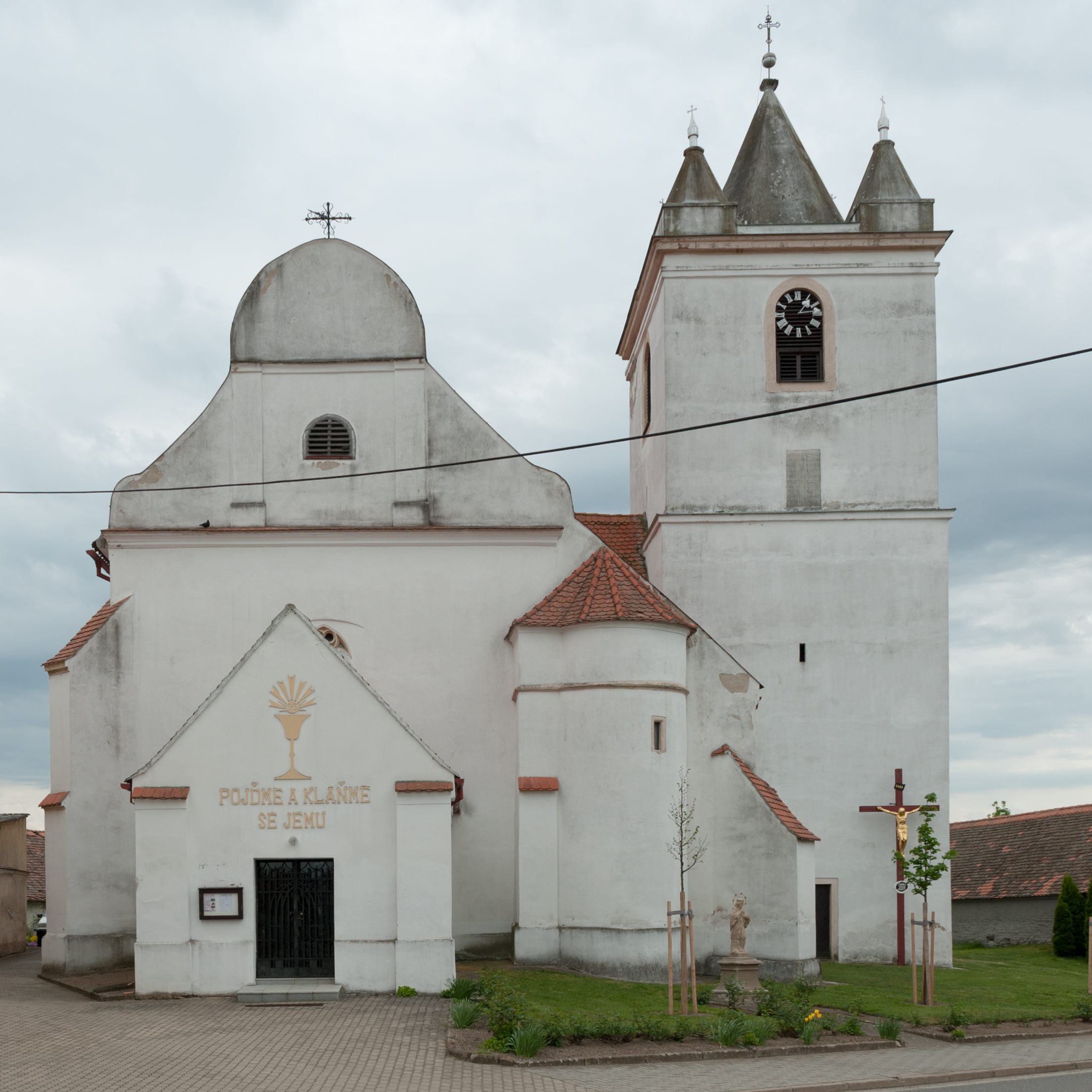 Wikitown Hustopeče: Prosiměřice